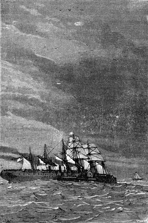 An illustration from Jules Verne's novel "A Floating City" (1869) drawn by Jules Férat.